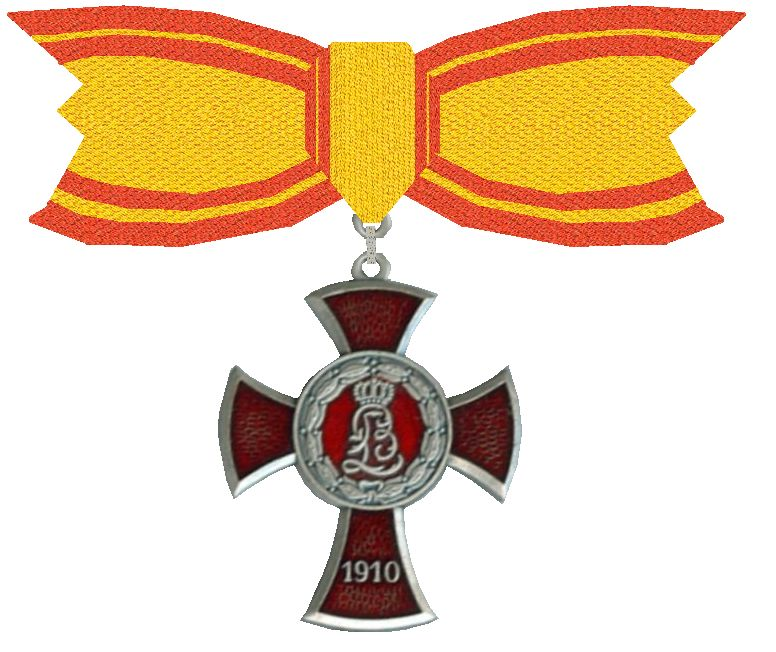 A scan of a cross in my own collection. Robert Prummel 2007